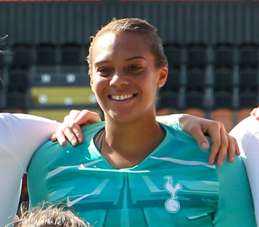 2019–20 FA WSL: Tottenham Hotspur FC Women v Liverpool FC Women, 15 September 2019 – Tottenham Hotspur starting line-up.